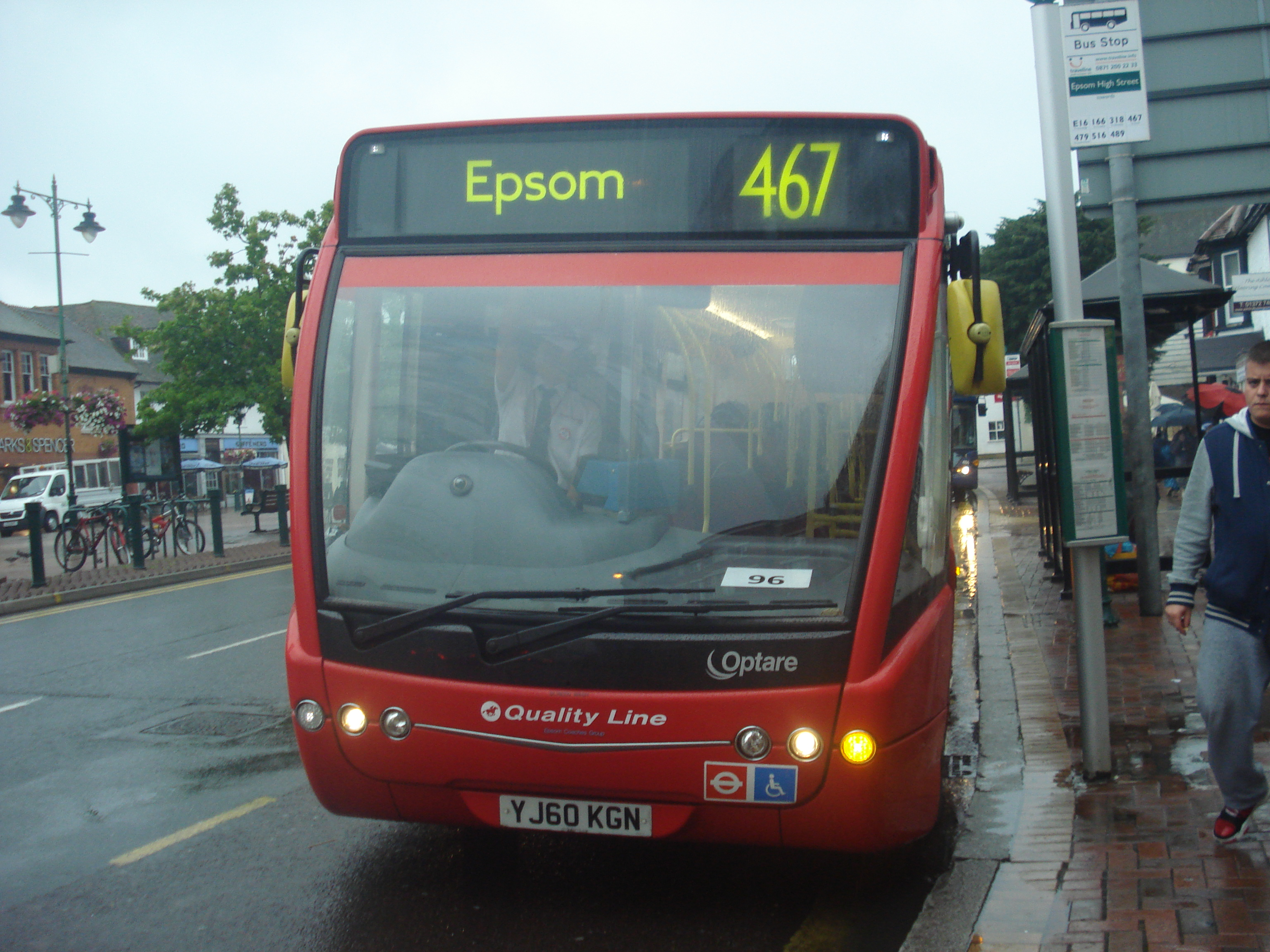 Quality Line OV06 on Route 467, Epsom Clock Tower